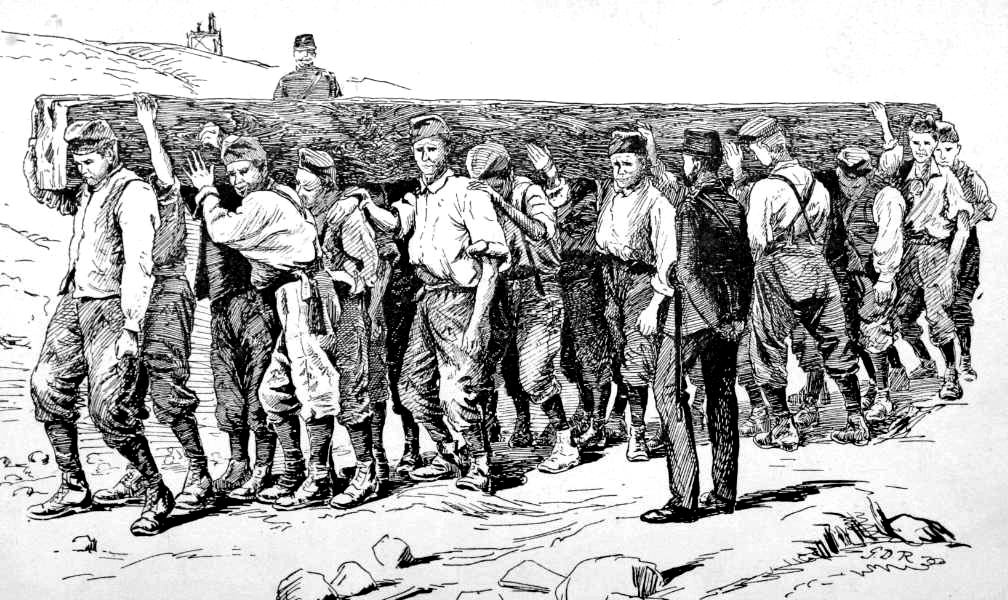 Digitally altered version of File:Convict Chain Gang.jpg. Original description: Book illustration of prison life. Griffiths, Arthur. "Secrets of the Prison-House" subtitled "Gaol Studies and Sketches". Chapman & Hall, 1894.